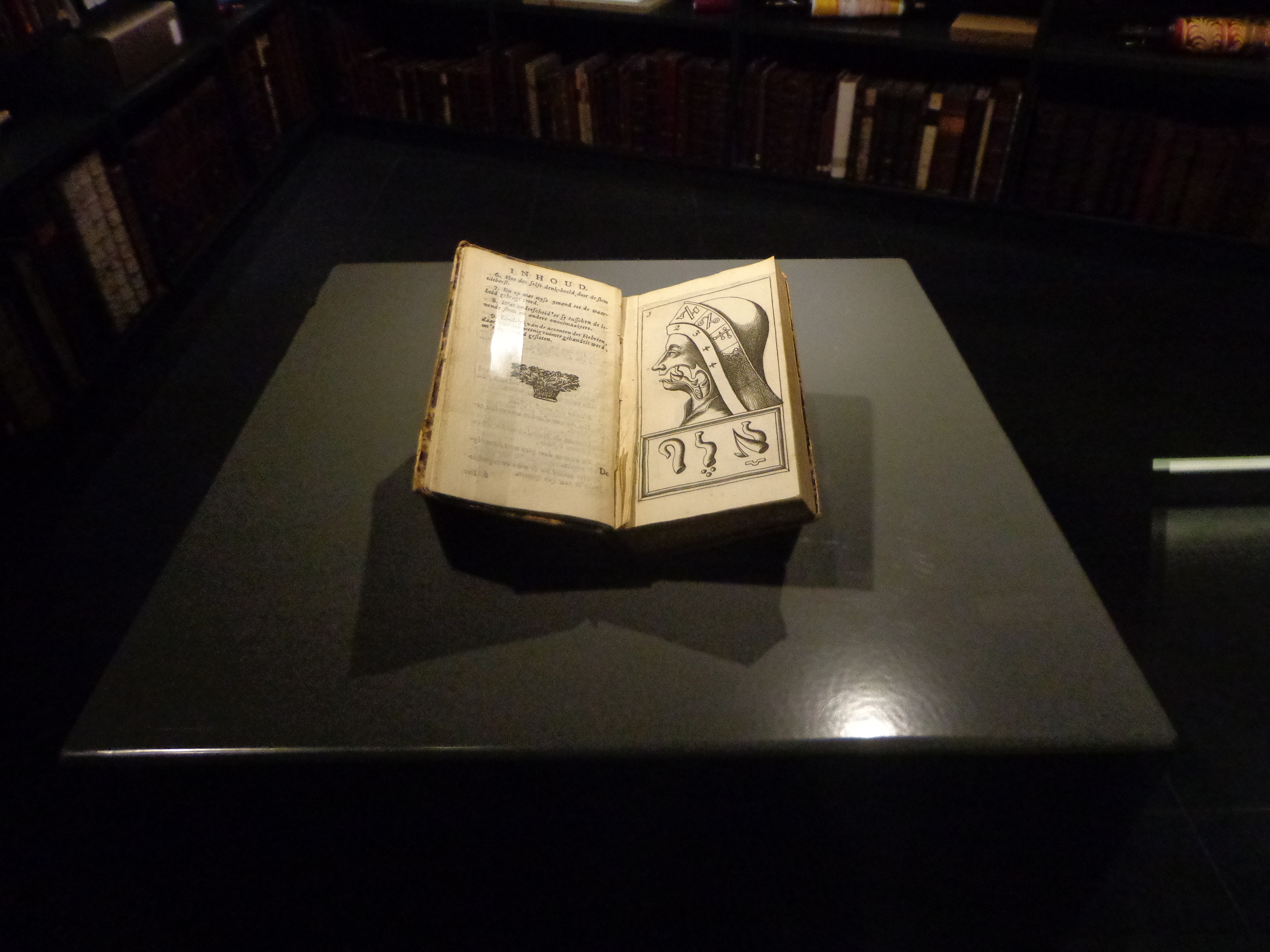 An early 17th-century method treatise on the Hebrew language. Page shown: pronounciation of the letter aleph.